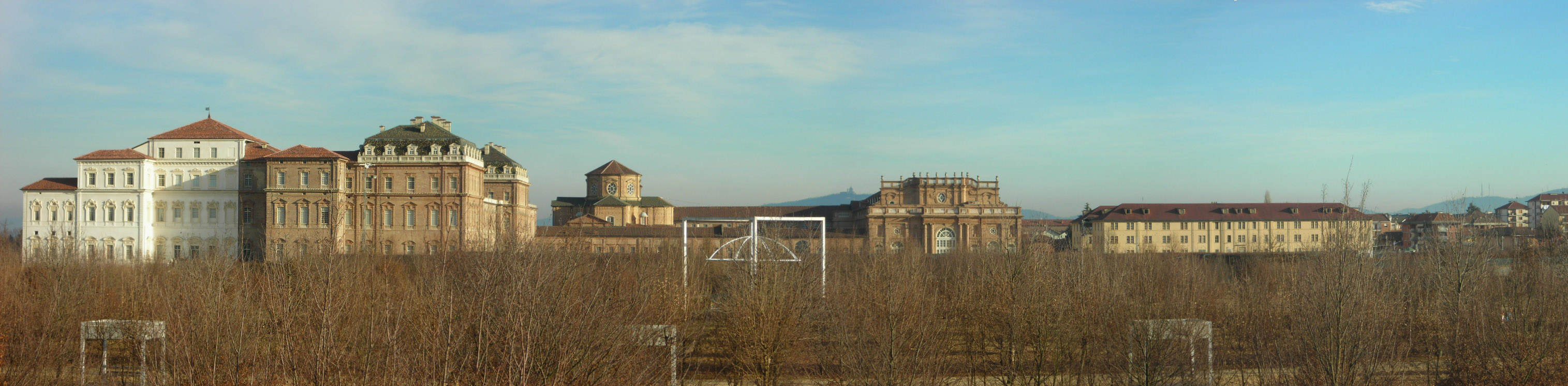 A panoramic photo of palace of Venaria Reale